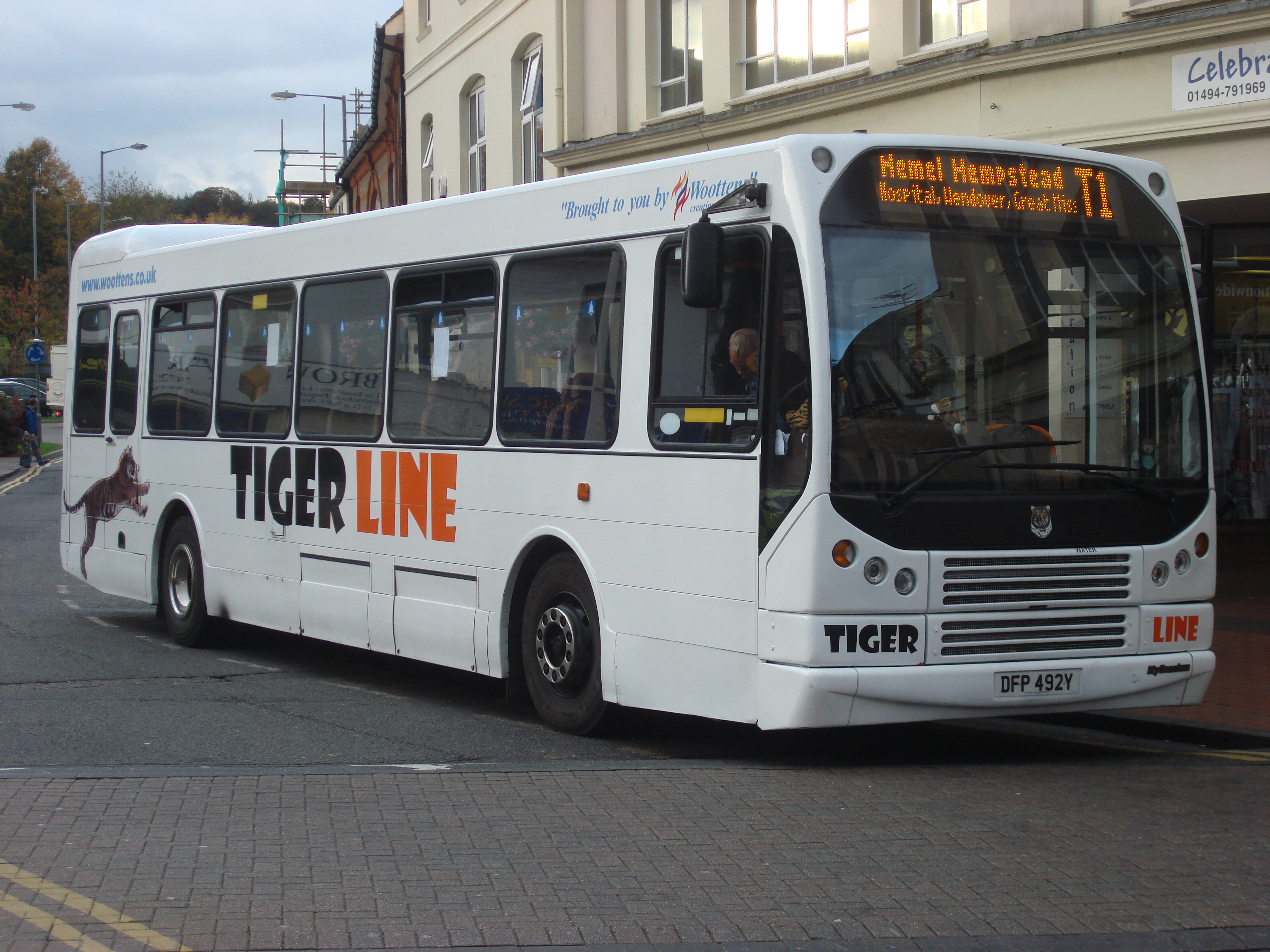 A Leyland Tiger/East Lancs Hyline bus in Chesham. Despite its modern appearance, the bus is quite old. It was rebodied by East Lancs in 2000 with the afore mentioned Hyline. The "Tiger Line" bus service is run by coach company Woottens. This bus is now Woottens' W61 (DFP 492Y). For info see [1]